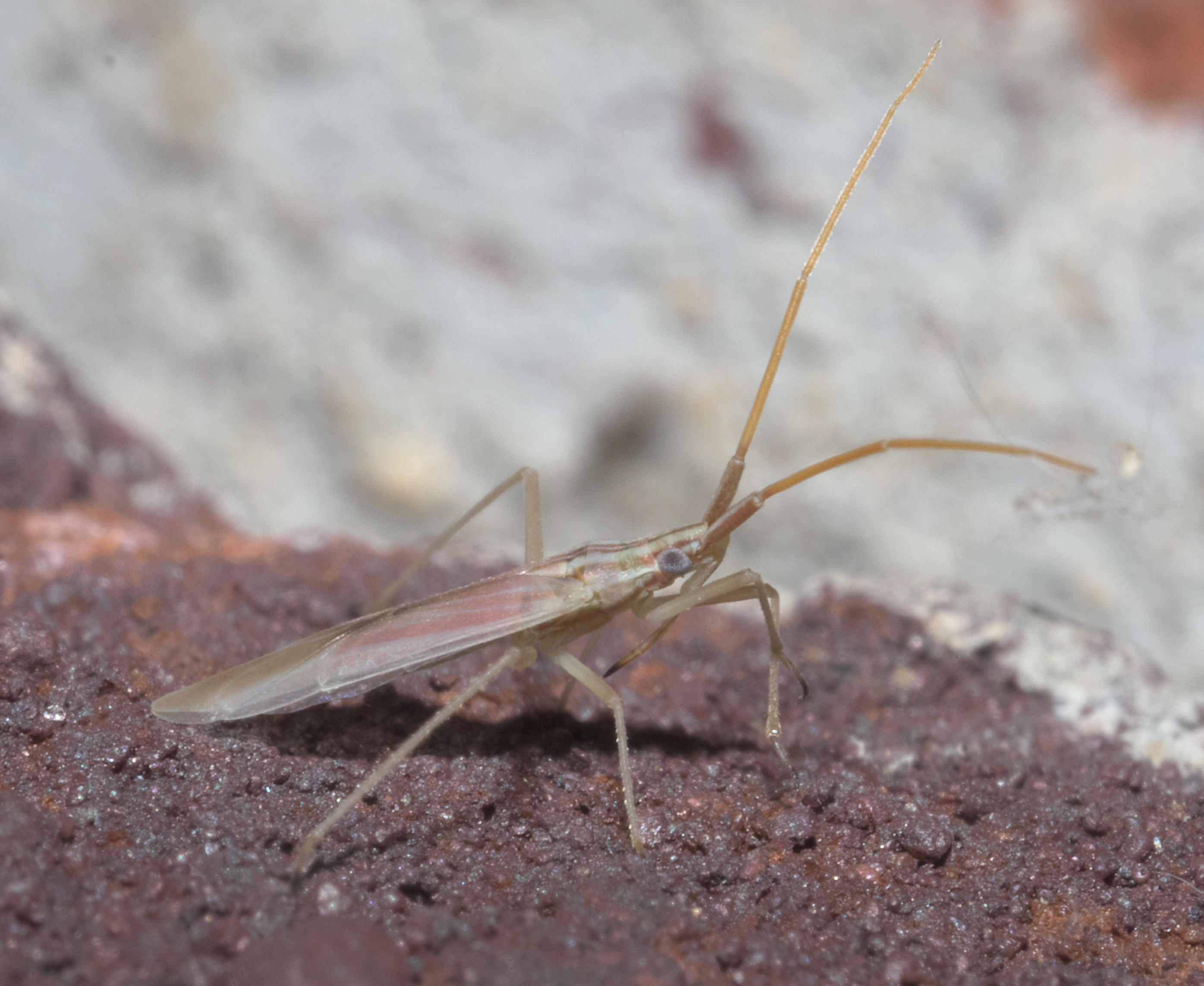 Trigonotylus pulcher, Family: Plant Bugs, Size: 5.1 mm, ID Confidence: 87